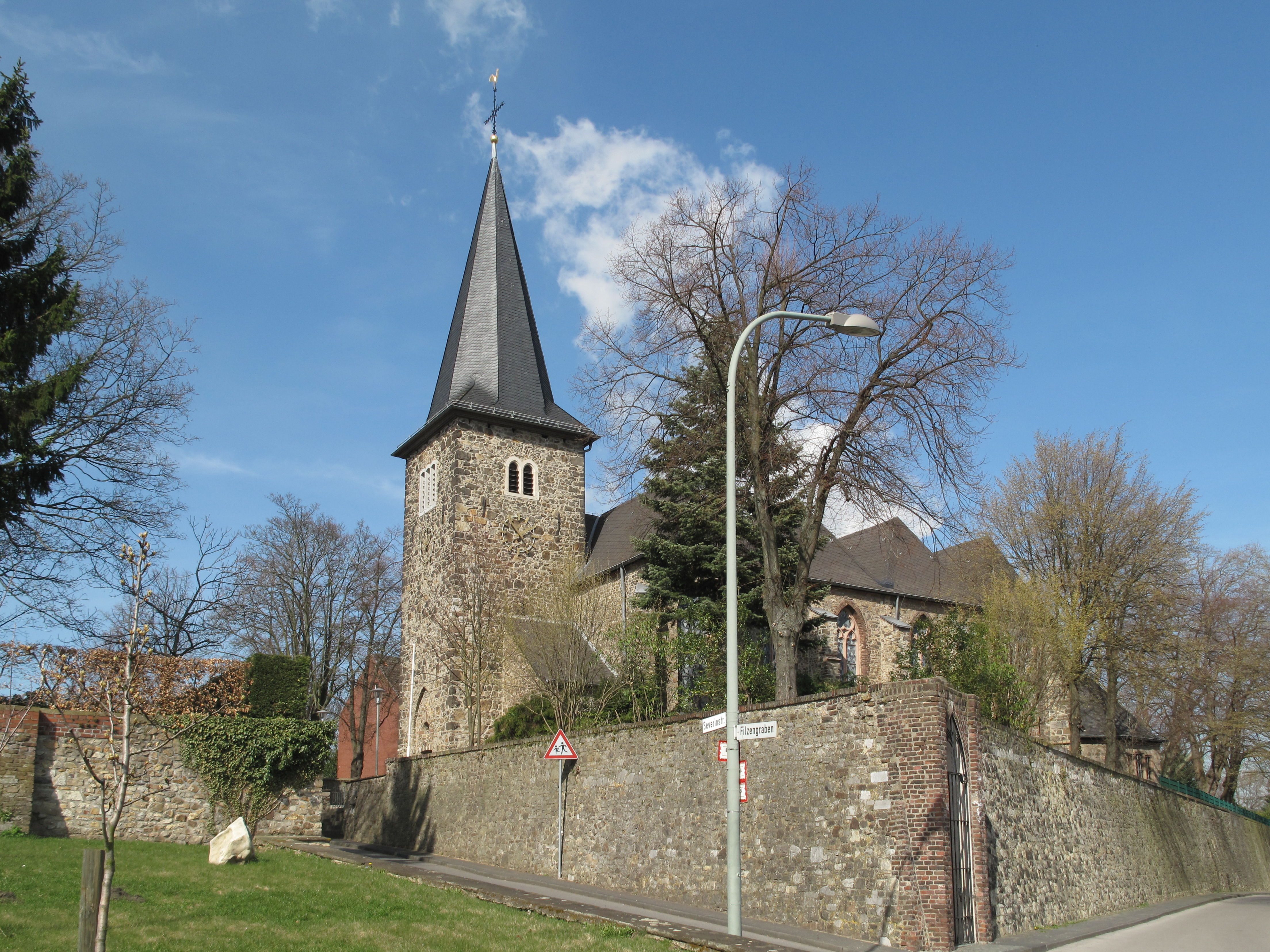 Weisweiler, church